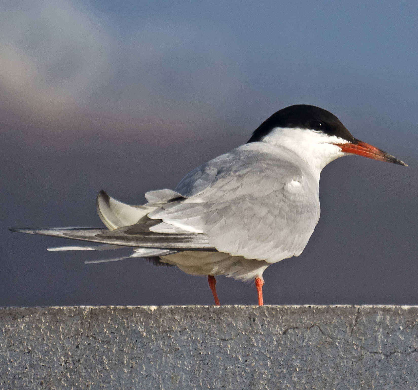 I only take photos from birds in freedom without any decoy